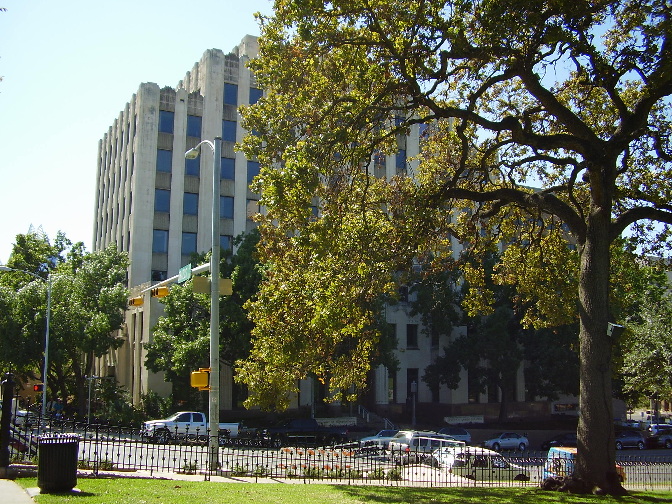 Dewitt C. Greer Building of the Texas Department of Transportation - a Registered Historic Place